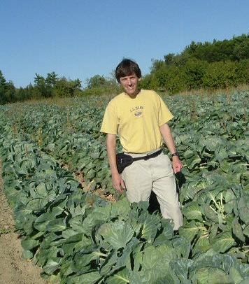 Andrew Ostrowski in garden, New England